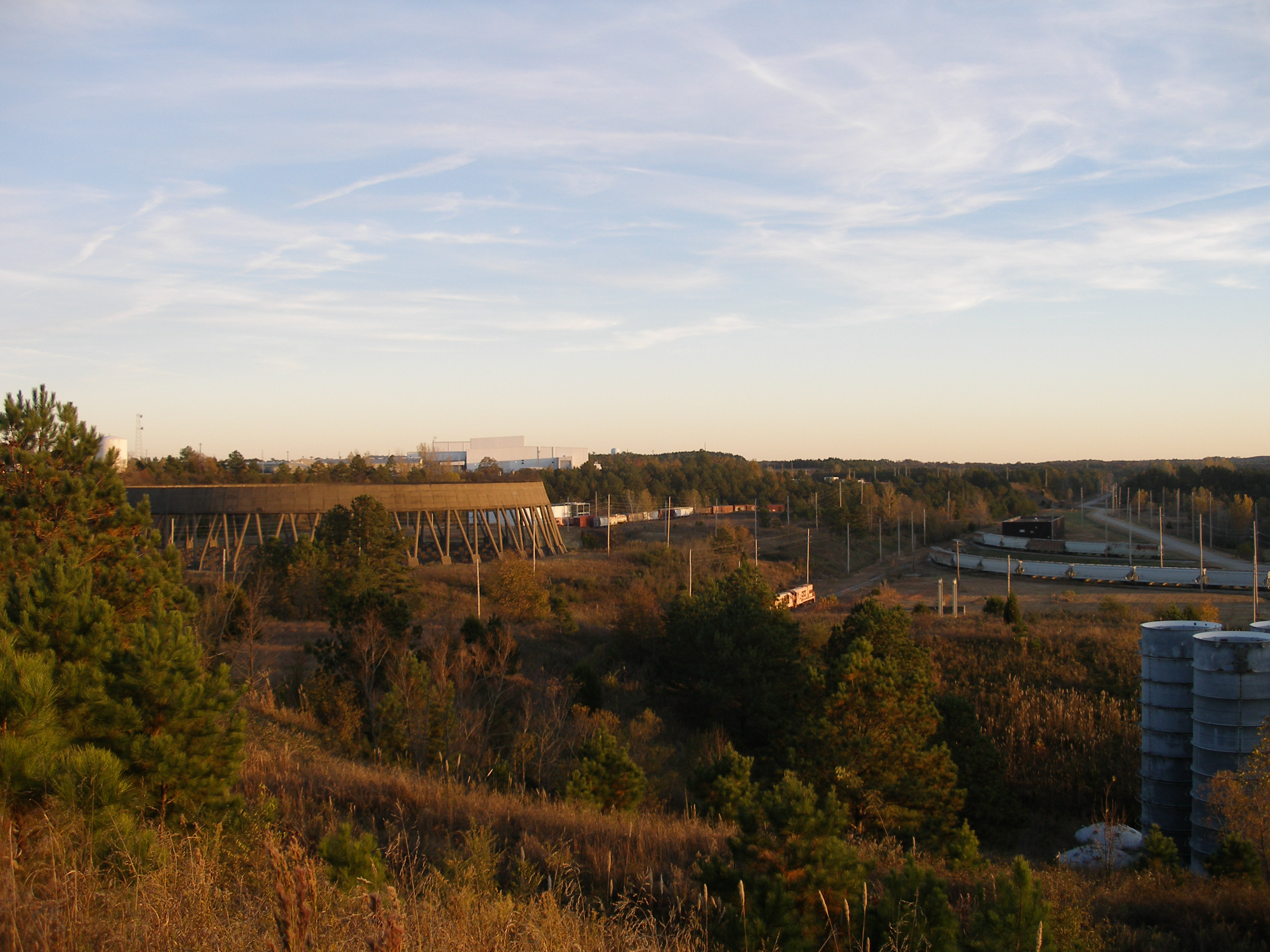 An image of the abandoned Yellow Creek Nuclear Power Plant site, taken on 8 November 2010.